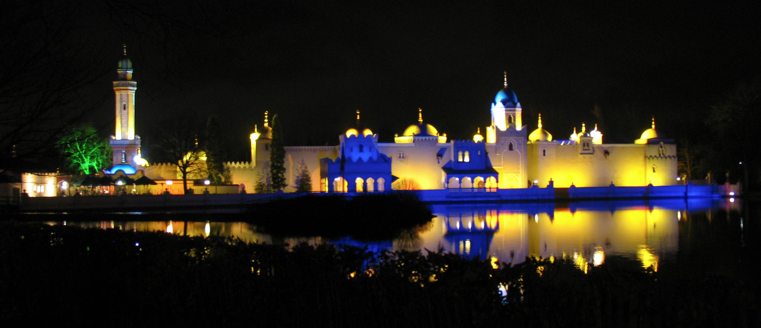 Darkride "Fata Morgana" in Efteling, Netherlands at night